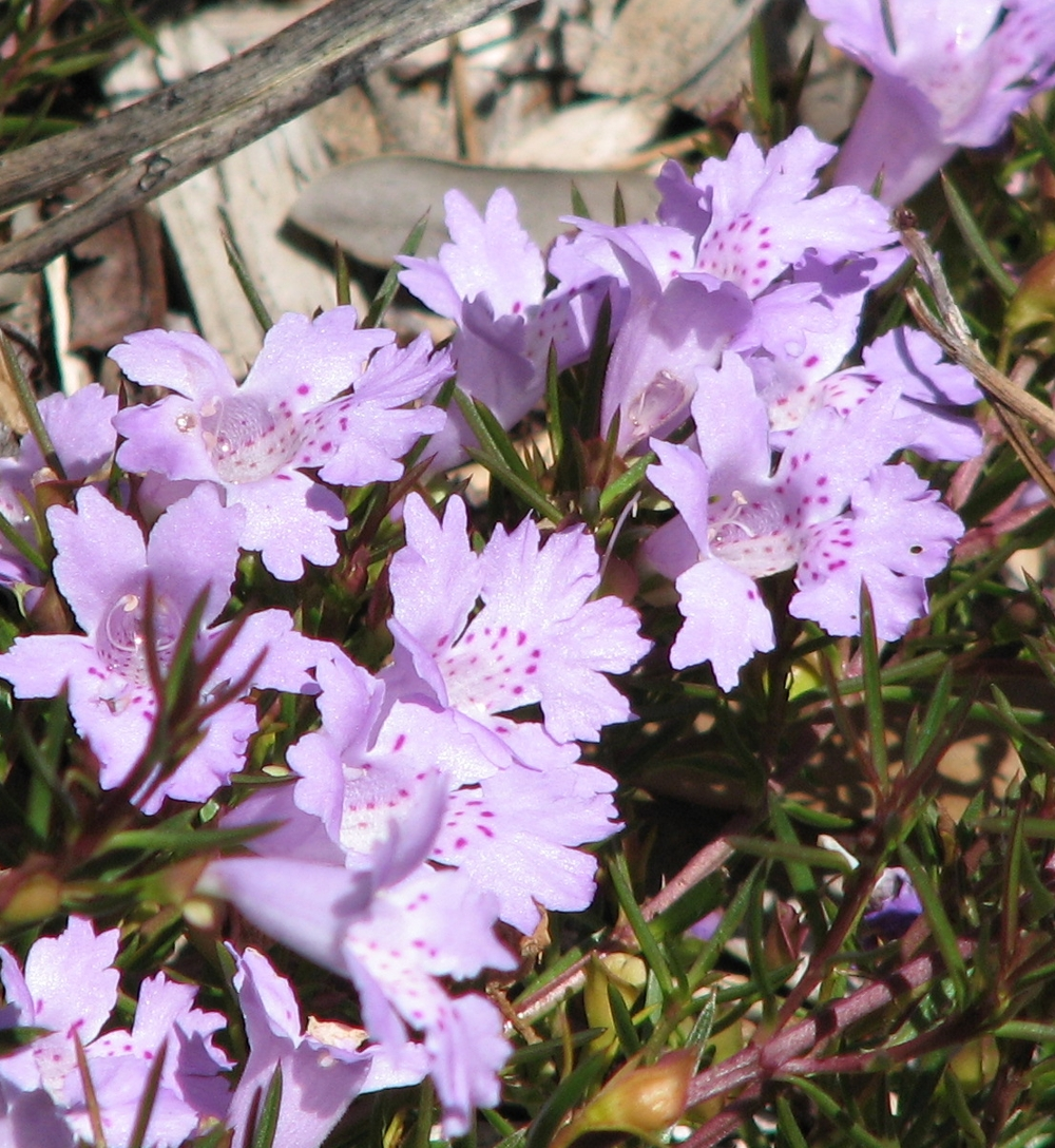 Hemiandra pungens, Geelong Botanic Gardens, Victoria, Australia